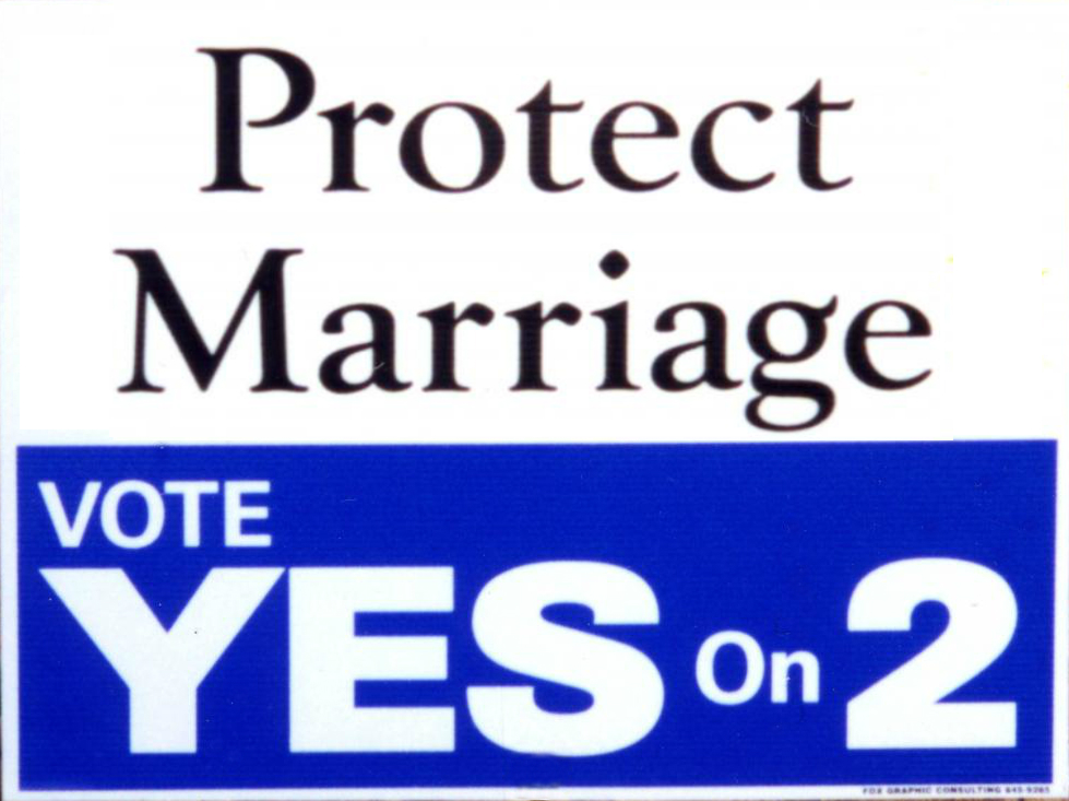 A sign distributed by the Coalition for the Protection of Marriage in support of Nevada's 2000 to 2002 Question 2 initiative to amend the state constitution to ban same-sex marriage.